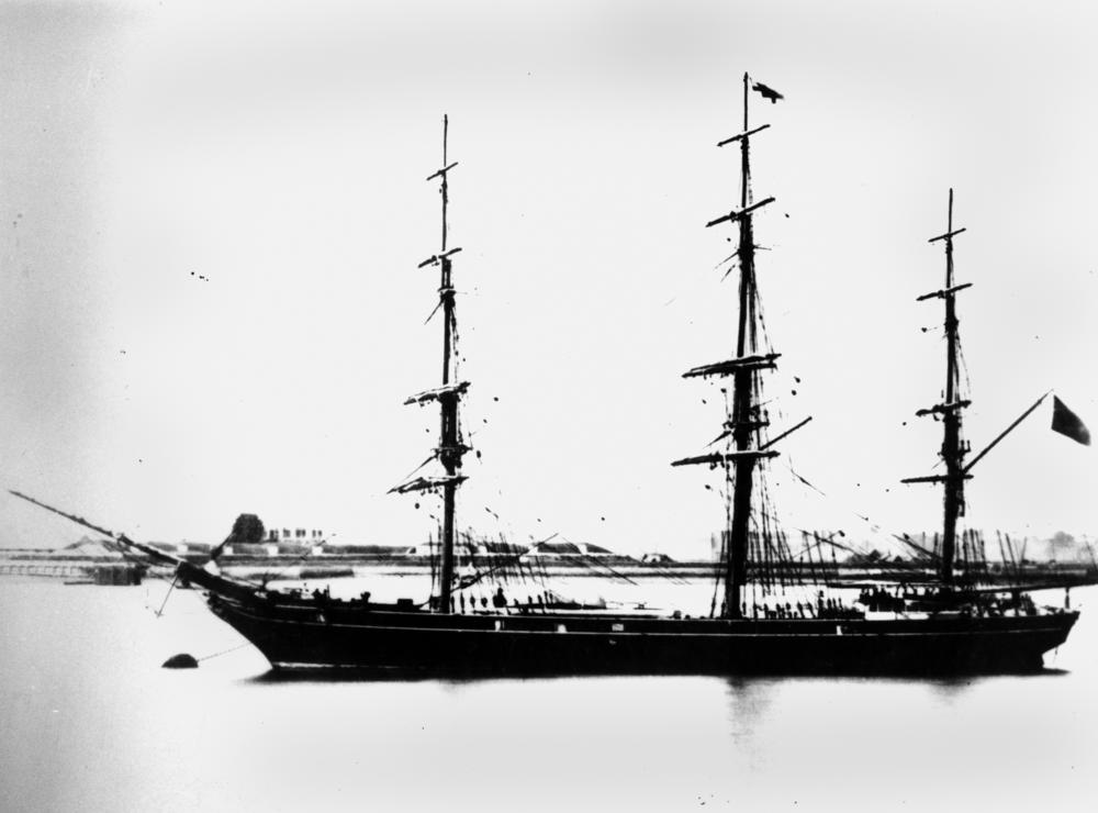 Highflyer (ship) The 'Highflyer' was one of the few Blackwallers to distinguish herself in the China tea trade. (Description supplied with photograph).